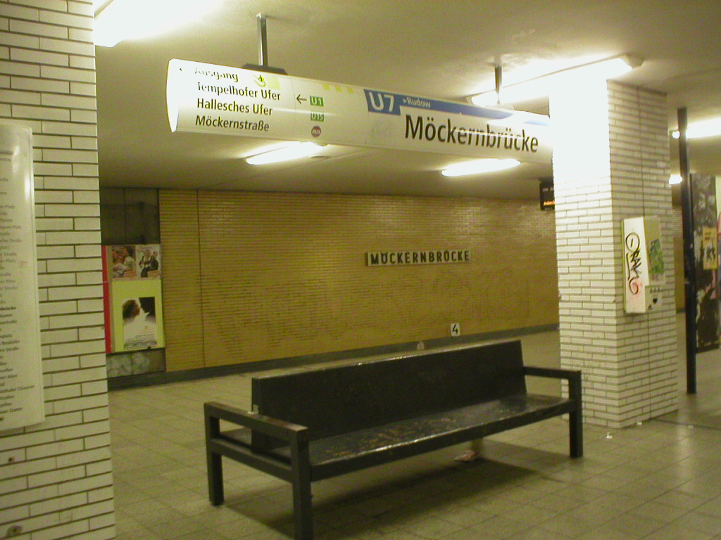 the Berlin U-Bahn station Möckernbrücke, platform of the line U7